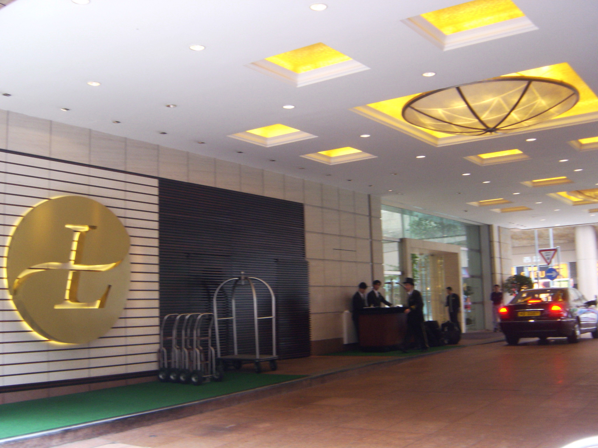 Langham Place's Langham Place Hotel, located at Mong kok, Hong Kong.